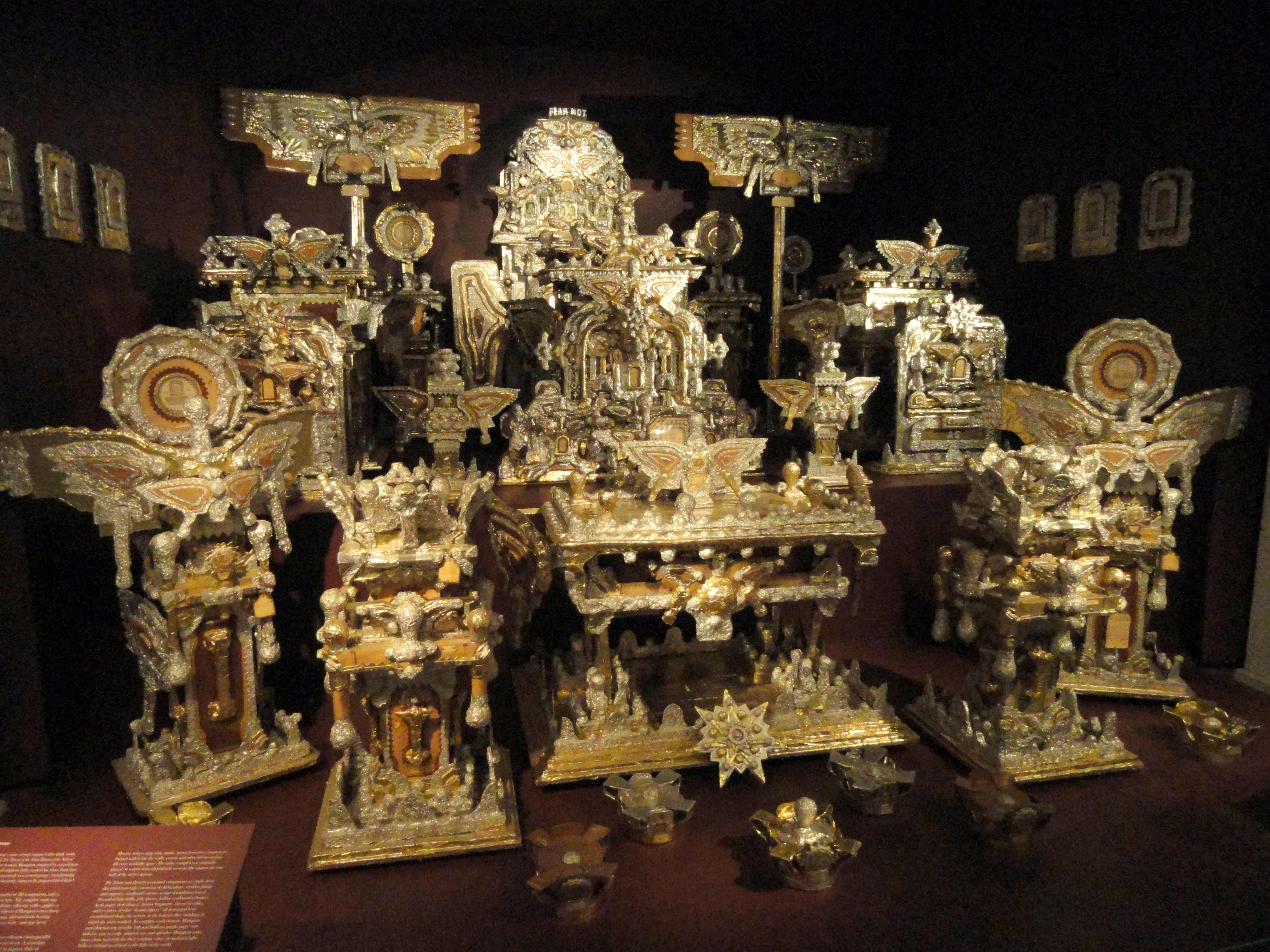 Throne of the Third Heaven of the Nations' Millenium General Assembly, by James Hampton. Folk art in the Smithsonian American Art Museum (National Portrait Gallery), Washington, DC, USA.